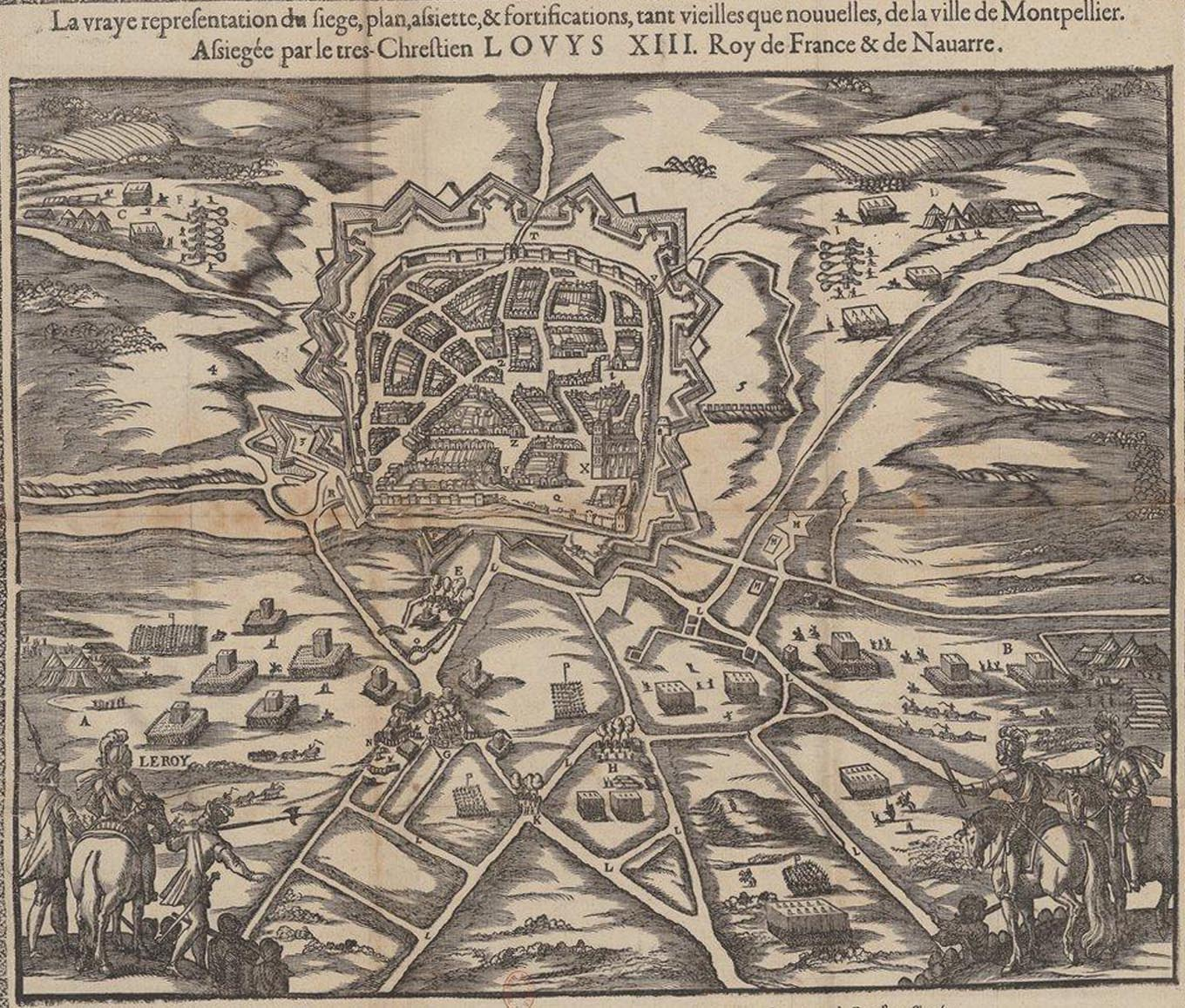 Montpellier 1622